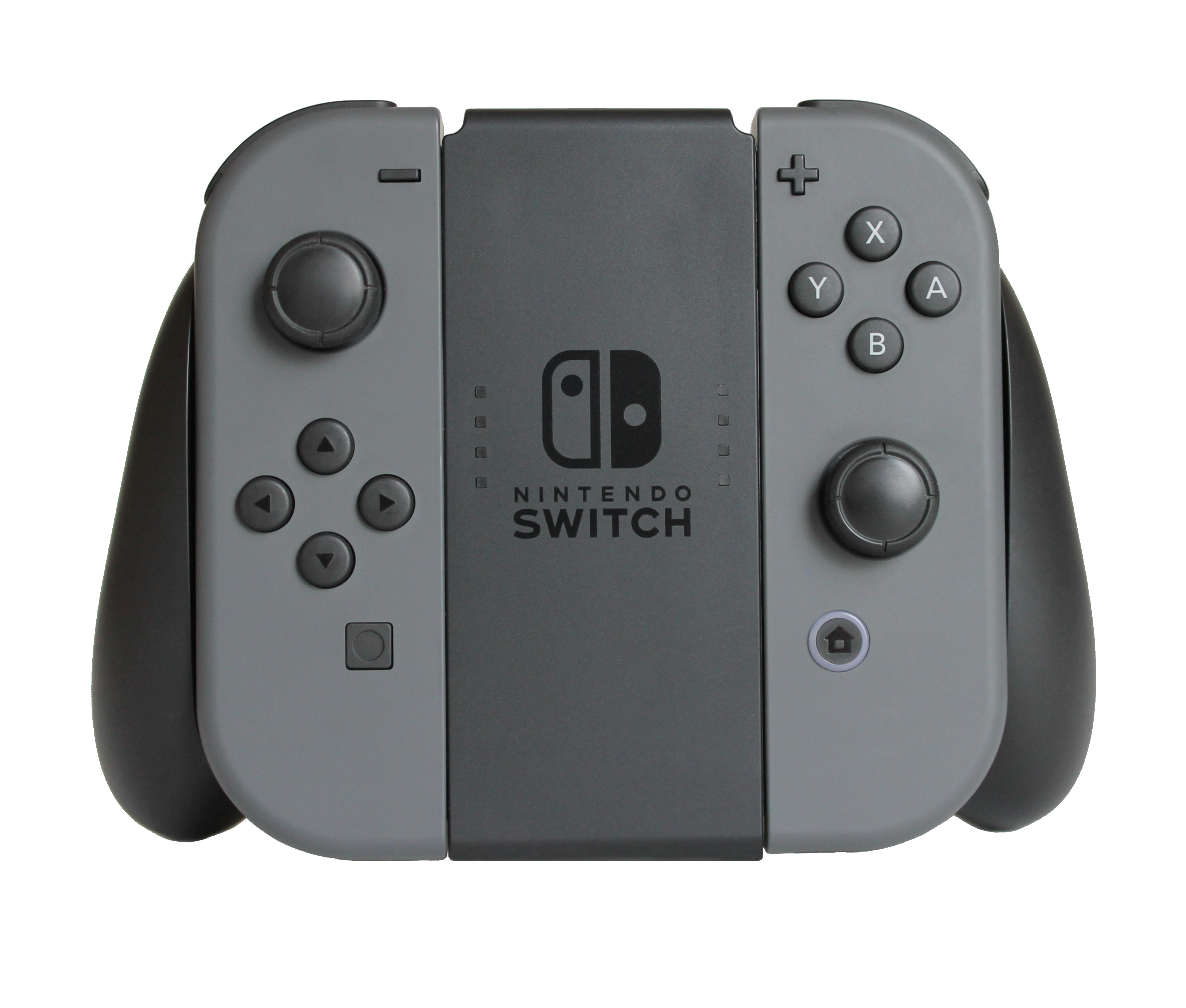 Nintendo Switch Joy-Con Grip controller with left and right Joy-Cons attached